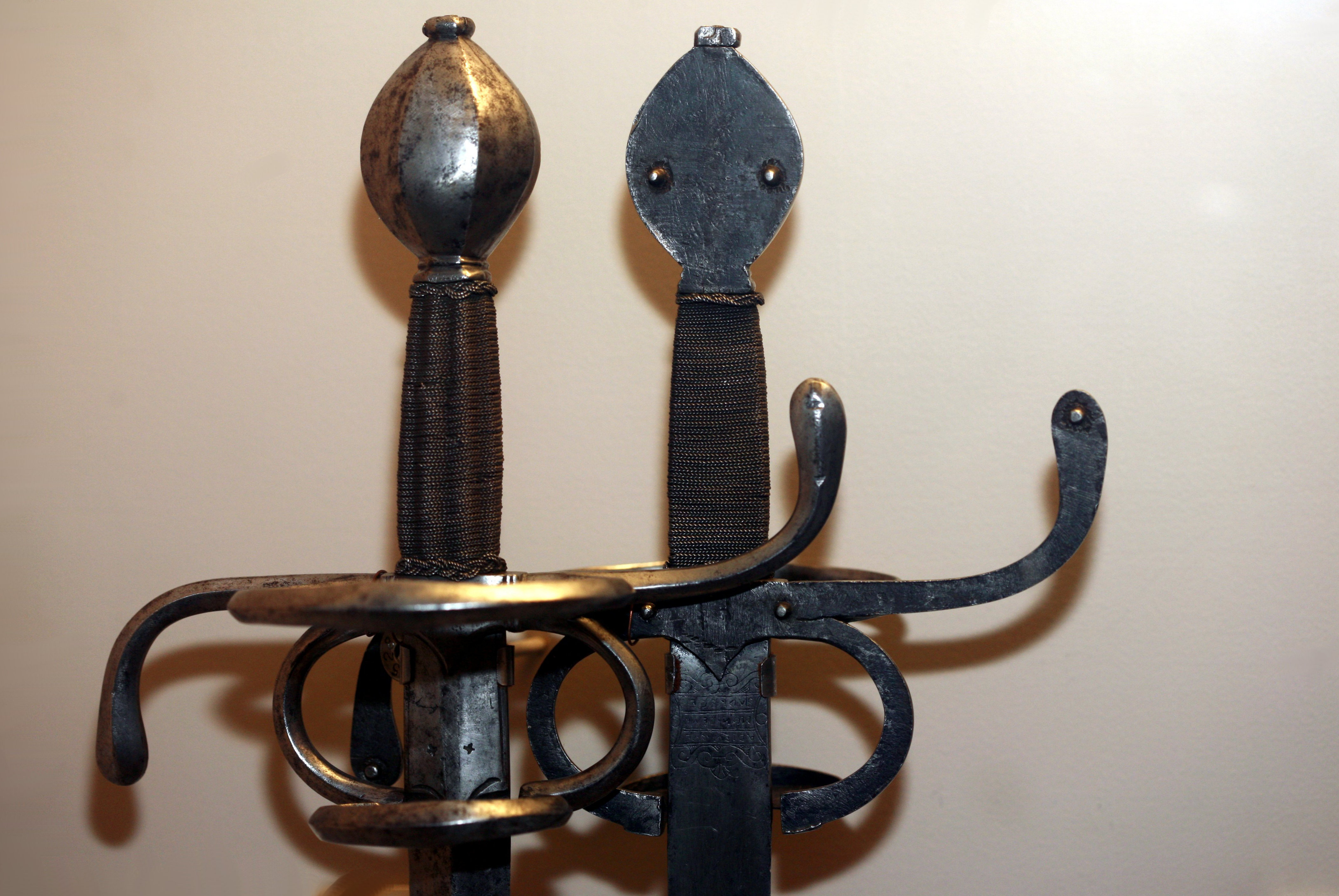 Twin swords, made to fit in one scabbard. One of the swords is used offensively, and that other as main gauche. Circa 1560-1580.